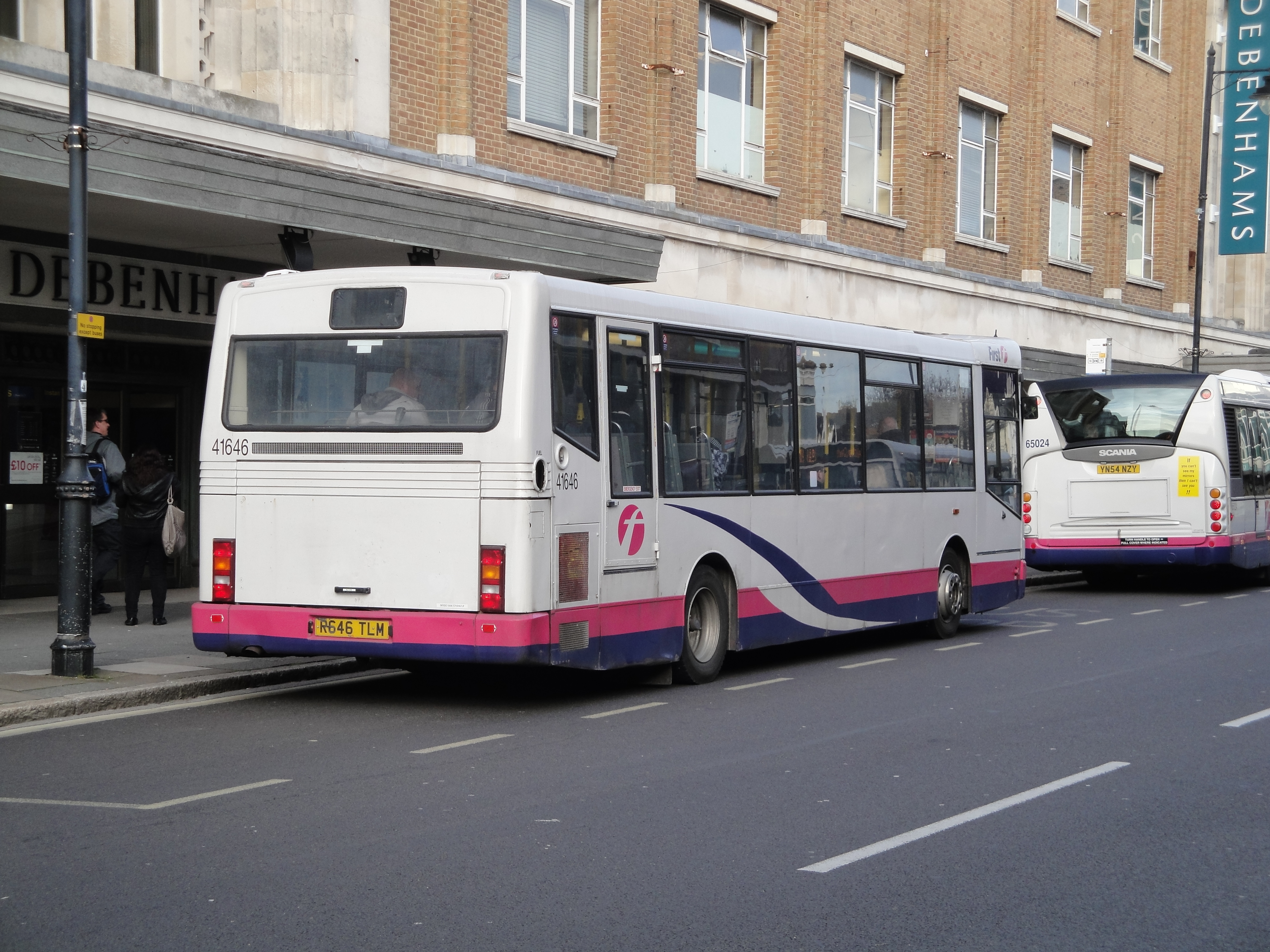 The rear of First Hampshire & Dorset 41646 (R646 TLM), a Dennis Dart SLF/Marshall Capital in Osborne Road, Southsea, Hampshire on route 6.